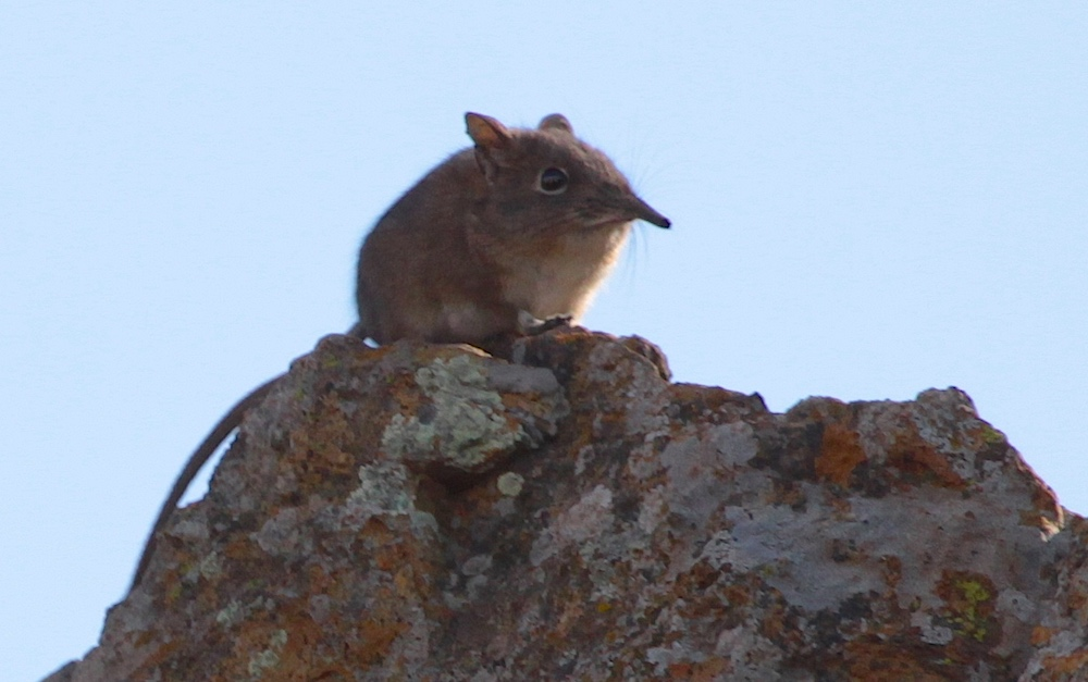 This image was taken on the rocky hill above the town of Greylingstad in South Africa on the 1st June 2015.